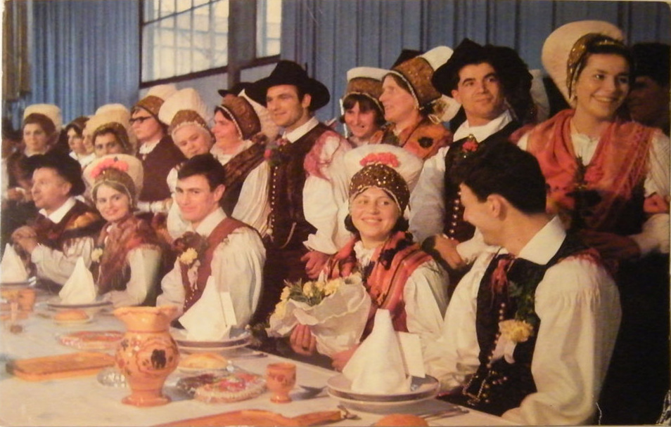 Postcard of Kmečka ohcet.